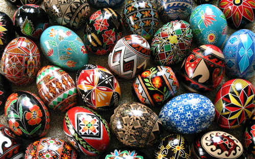 A mix of modern and traditional Ukrainian pysanky author: Luba Petrusha (me) 2006